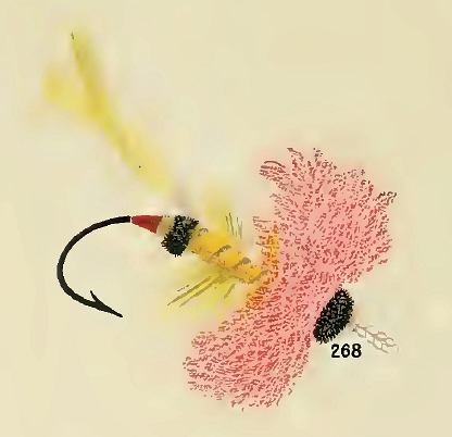 Artificial fly "Count Max von dem Borne of Germany"